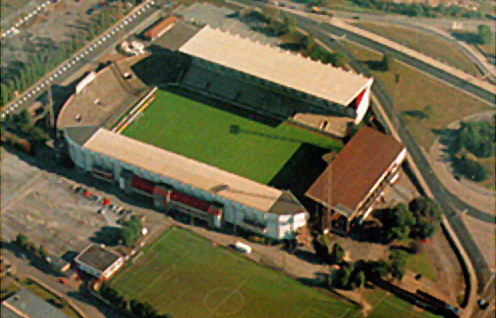 Stade de Sclessin in 1994